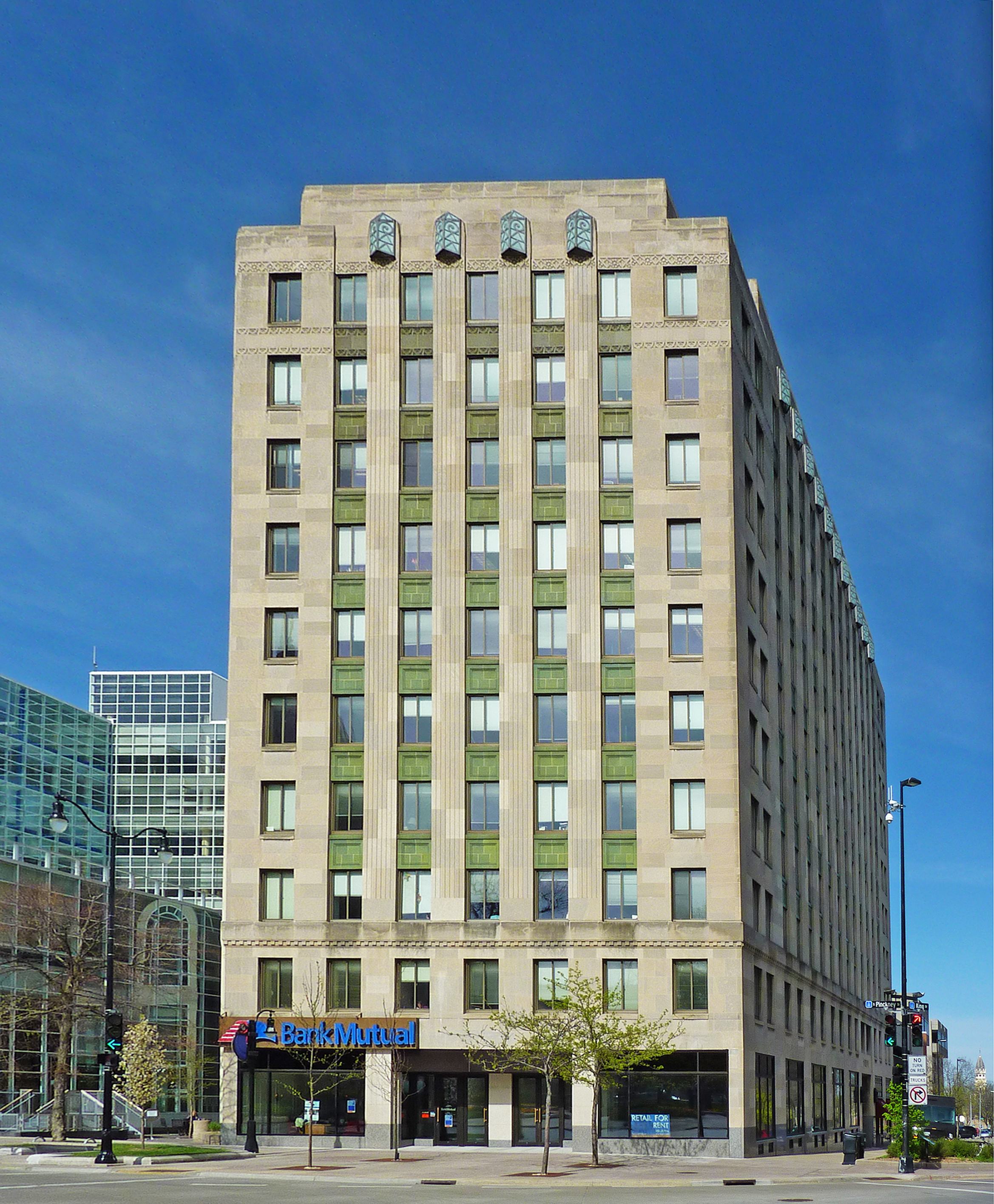 Built in 1929, the 10-story art deco Tenney Building (also known as Tenney Plaza) designed by Law, Law & Potter was the first steel building in Madison, Wisconsin.